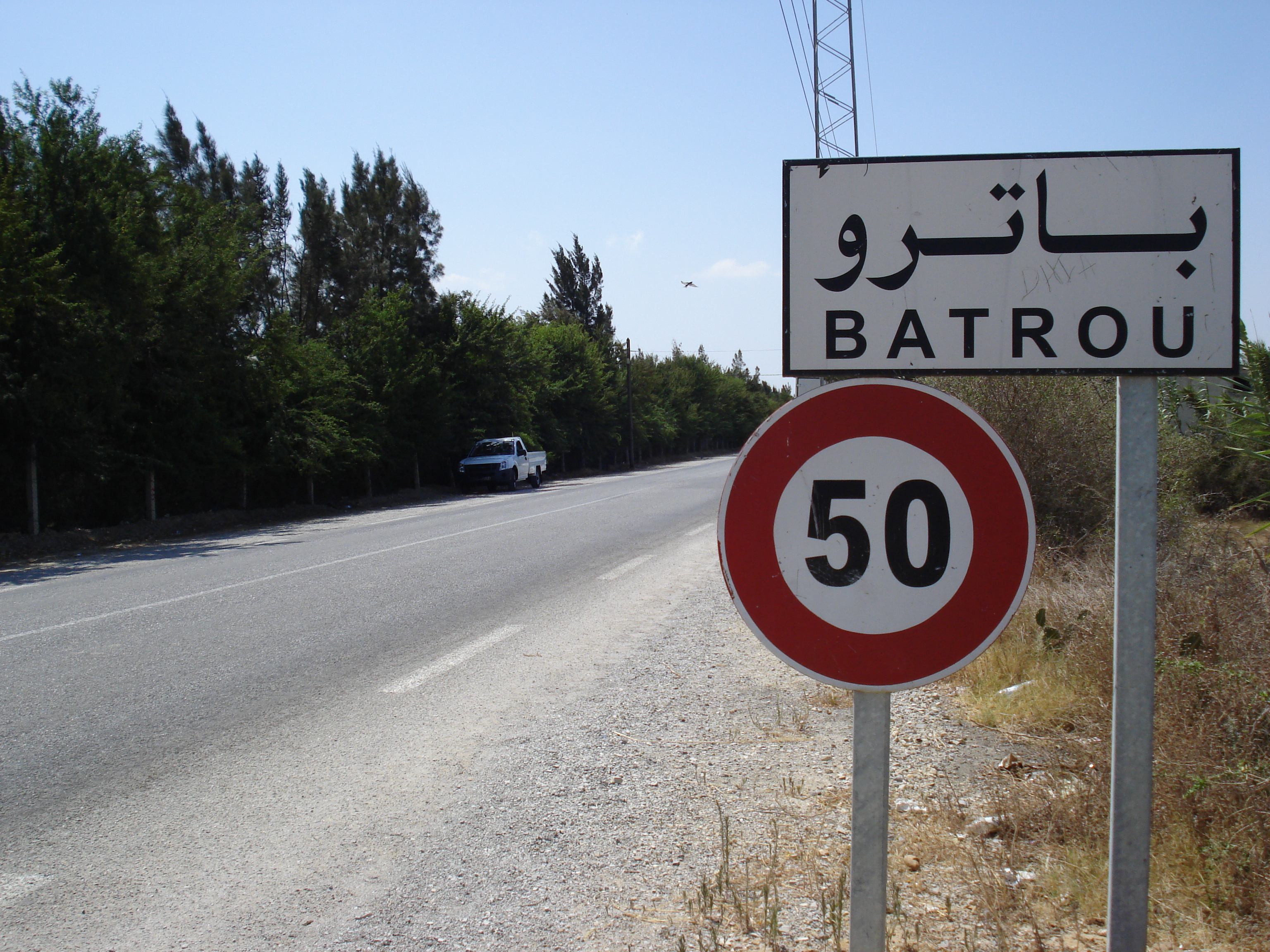 Batrou village, Tunisia.